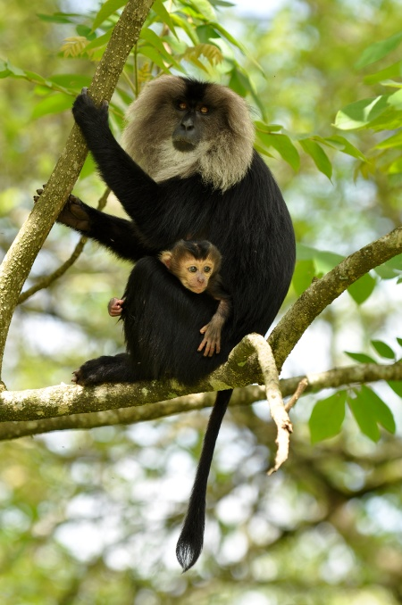 Lion-tailed macaque with infant